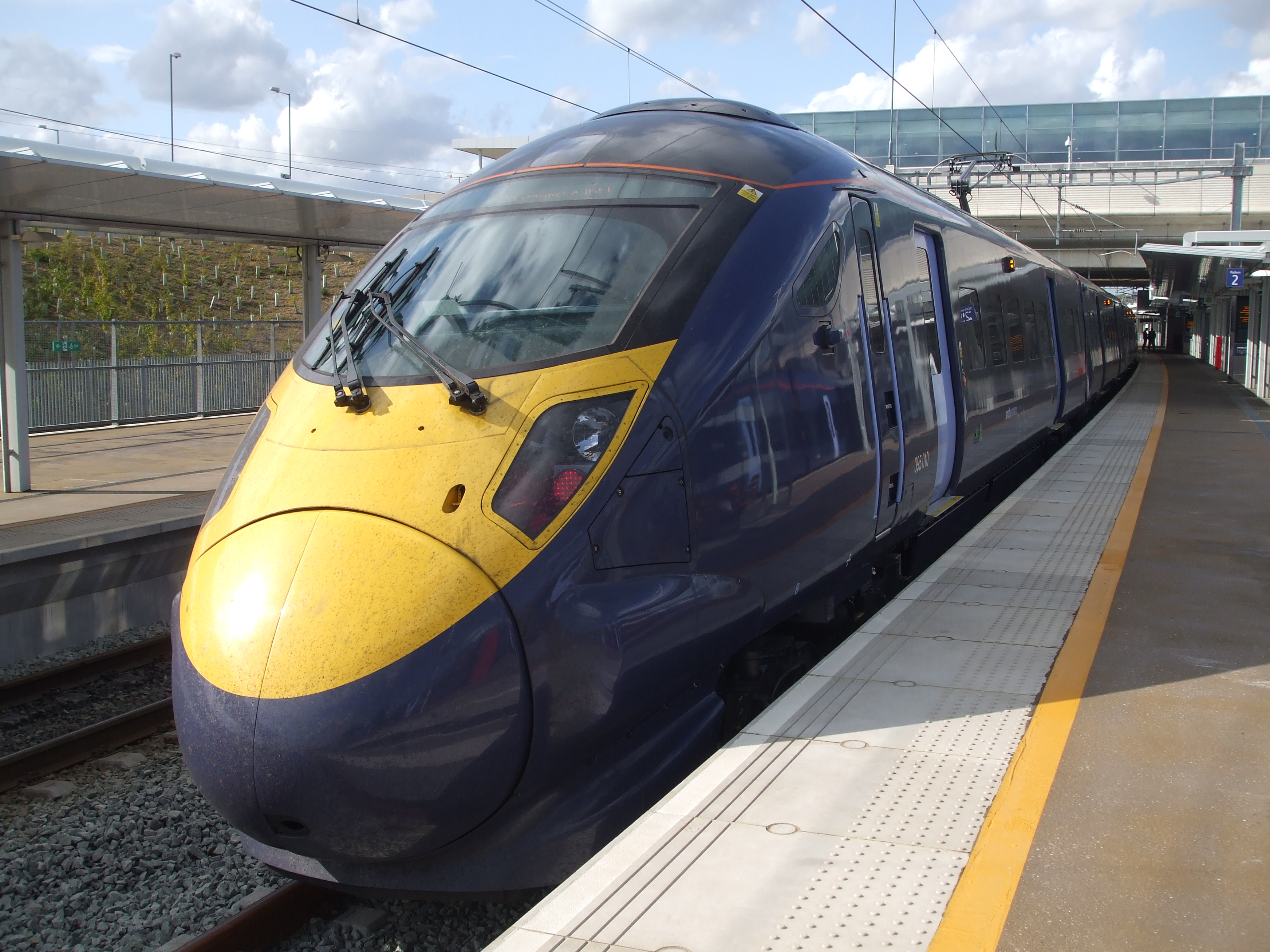 Class 395 "Javelin" unit 395010 awaiting return to London at Ebbsfleet International railway station.